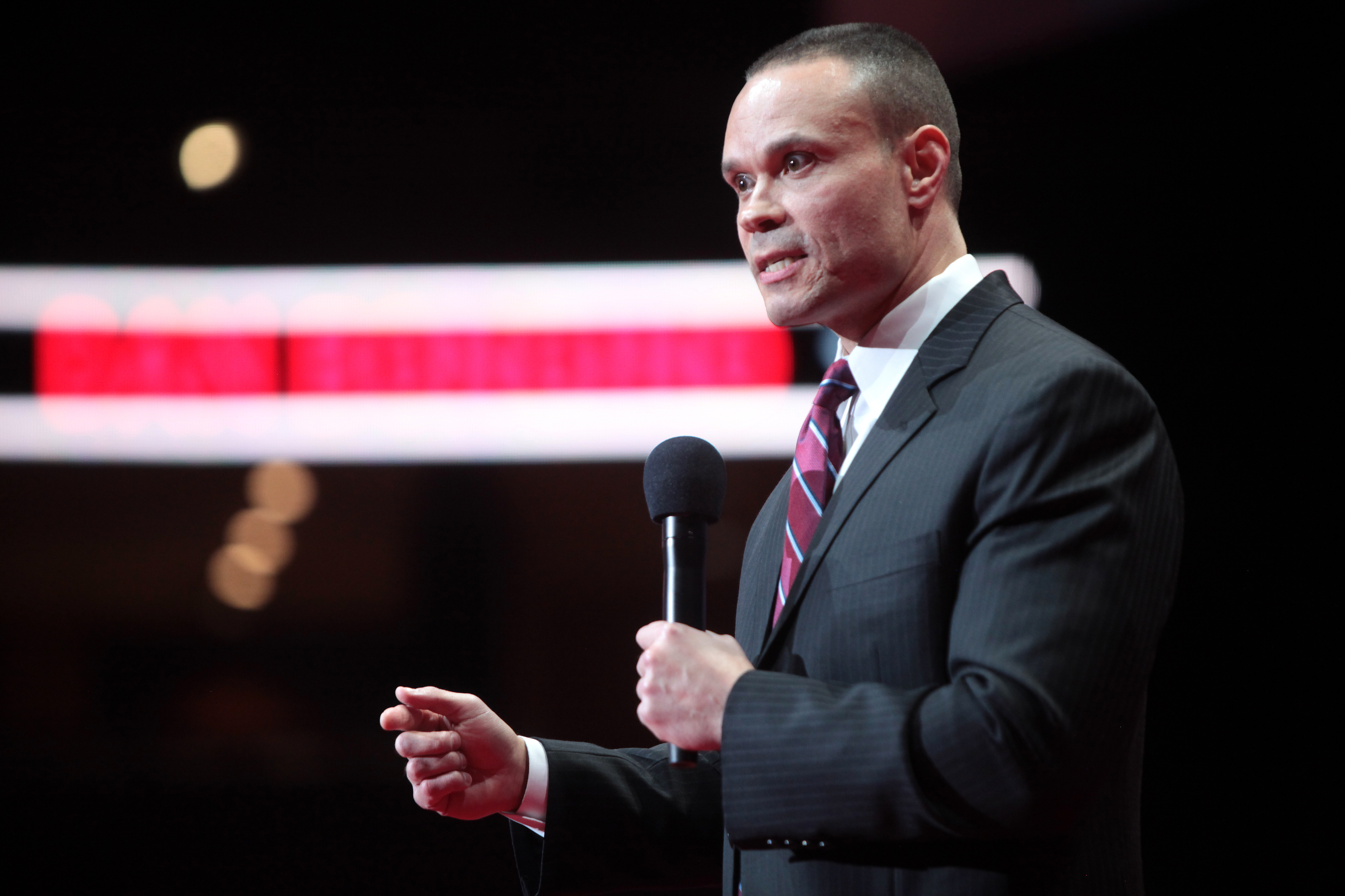 Dan Bongino speaking at an event in Greenville, South Carolina.